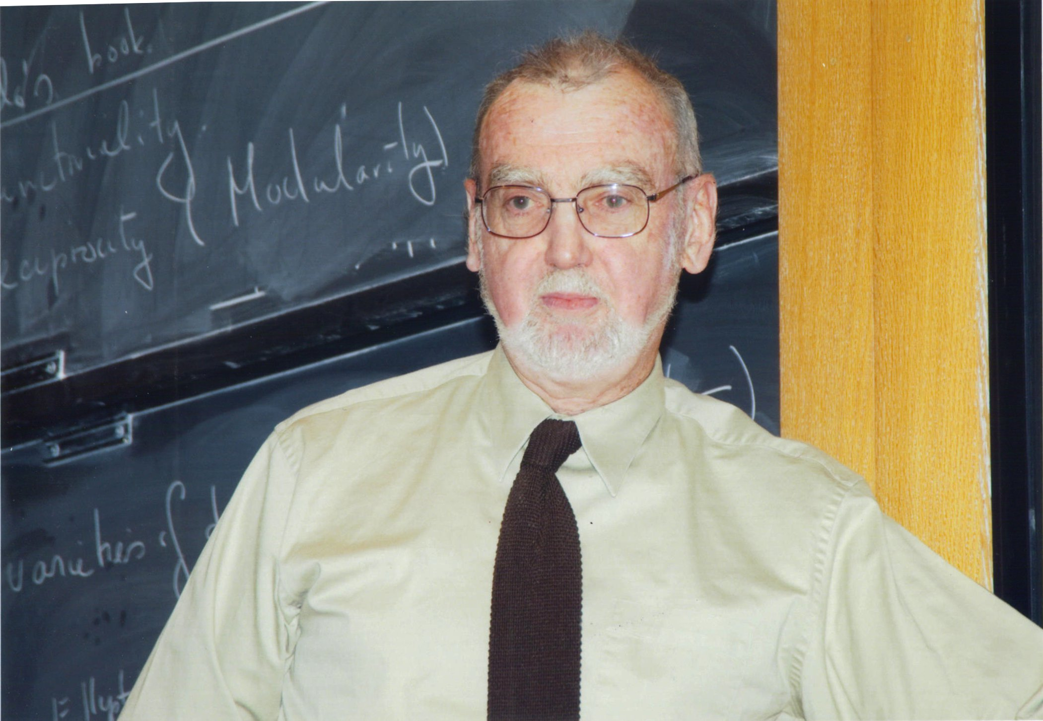 Photo of professor Robert Phelan Langlands (IAS, United States), holder of a number of scientific awards